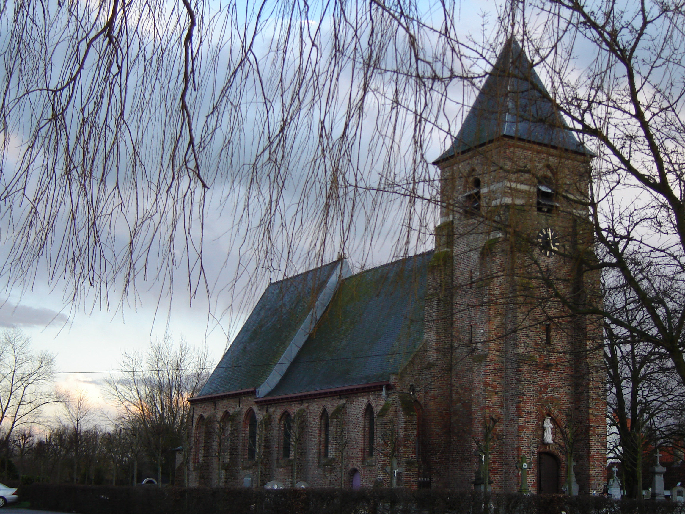 Church of Saint James the Great in Hoeke, Damme, West-Flanders, Belgium.